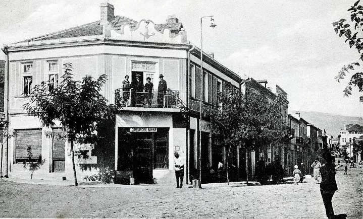 The building of Svilarska Banka in Strumica.